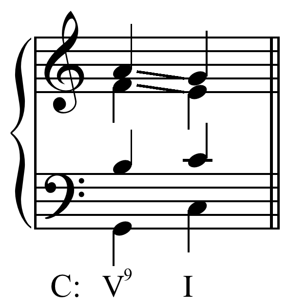 Ninth chord voice leading: Voice leading for dominant ninth chords in the common practice period.